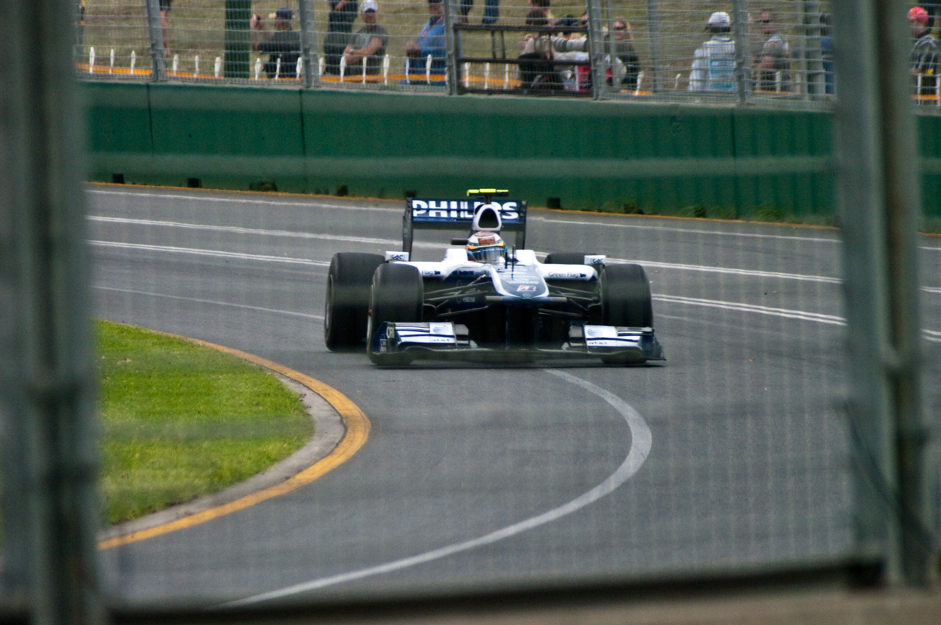 Nico Hülkenberg driving for WilliamsF1 at the 2010 Australian Grand Prix.